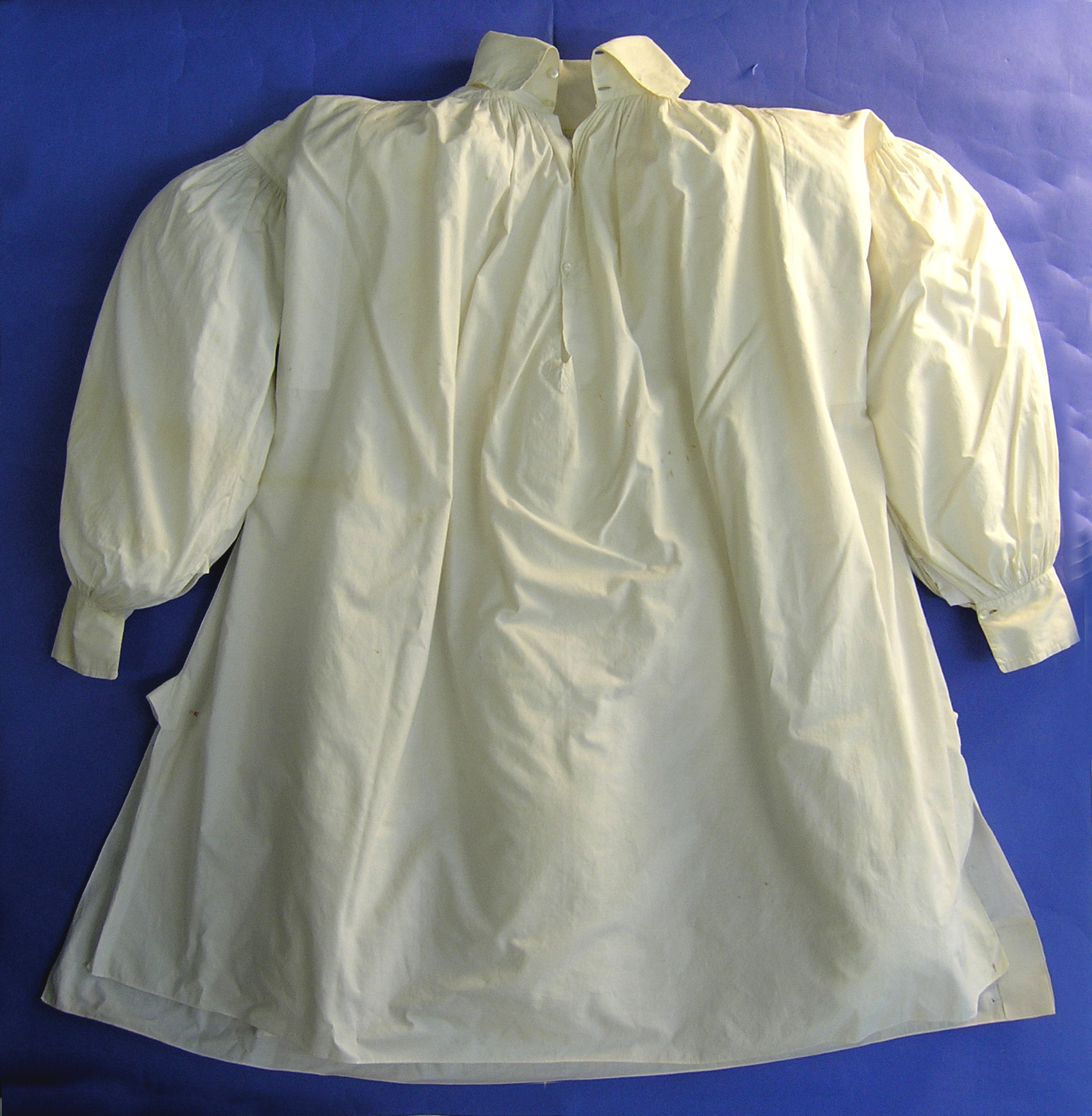 Hand made shirt "Gentleman's white shirt; made by hand in 1849 by Mrs Elizabeth Bedggood nee King" white shirt with embroidered initials "IK" or "JK" detail- fine, white cotton shirt with square-set, drop shoulder, heavily gathered sleeve, finishing with fine pleating at cuff; cuff fastens with single mother-of-pearl button; high standing fold over collar fastens at throat with 2 mother-of -pearl buttons; front fastening with placket finished with buttonhole stitch reinforcing and heart-shaped top-stitched decorative motif with 2 mother-of-pearl buttons; vents at both side seams lower edge; separate front and back panels; back panel heavily gathered at neck line; initials I.K. in fine red cross stitch above vent front right